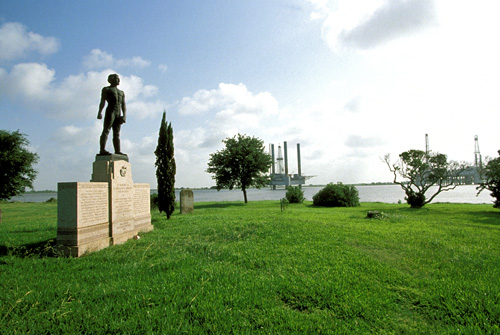 Sabine Pass Battleground State Historic Site. Matchett Herring Coe sculpted the statue for the Texas Centennial.